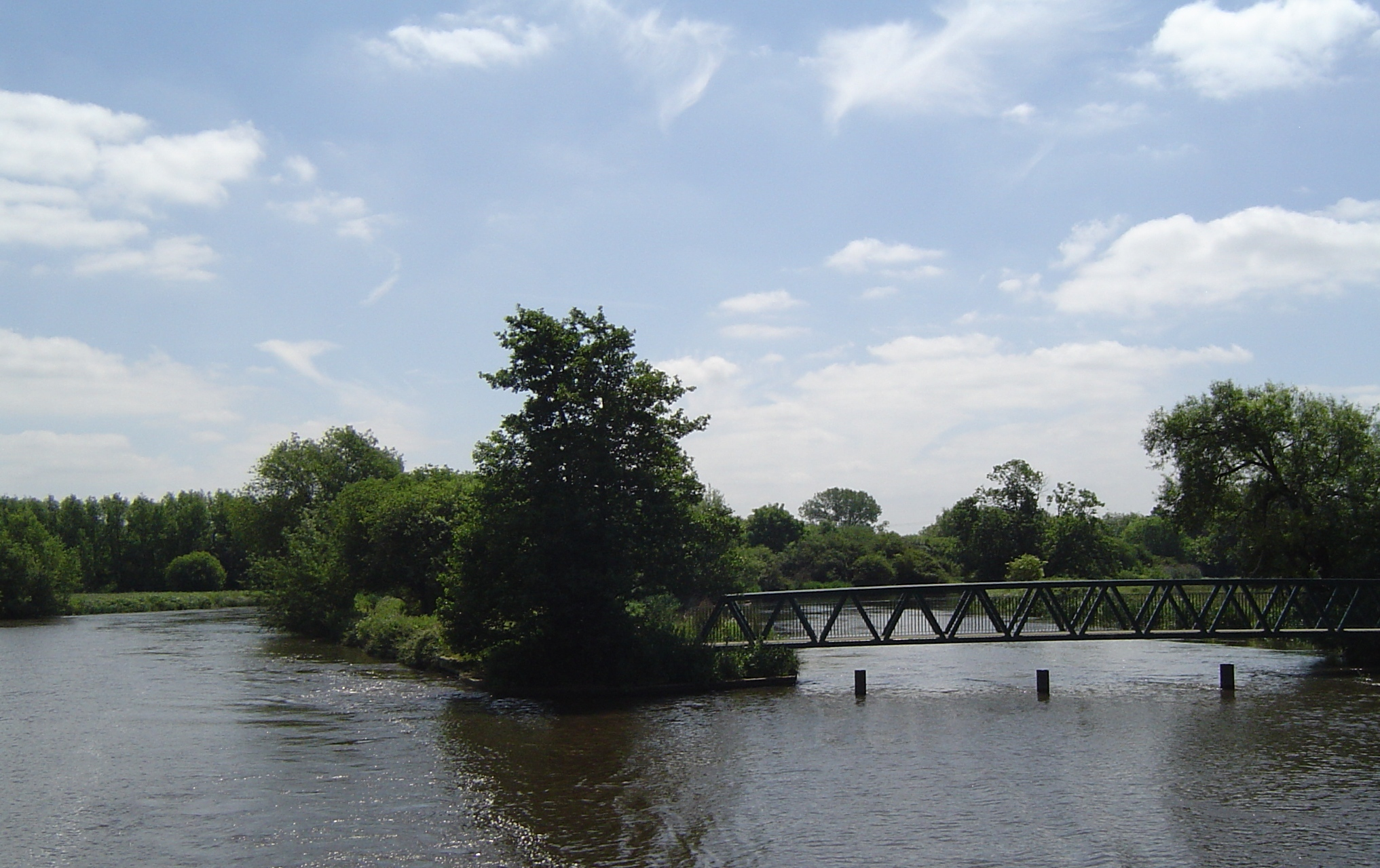 Fiddlers Elbow River Thames